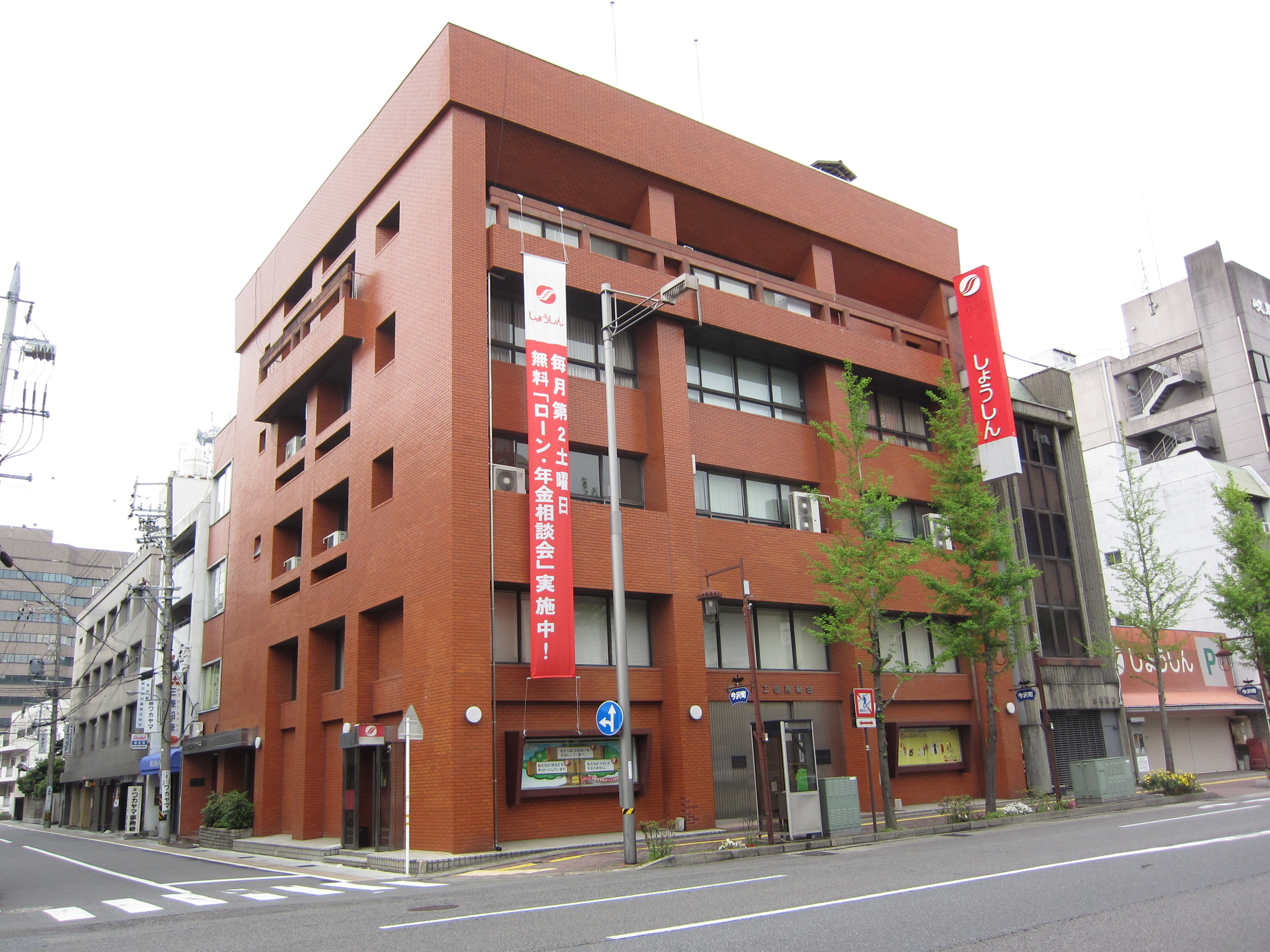 Gif Commerce And Industry Credit Cooperative Head Store